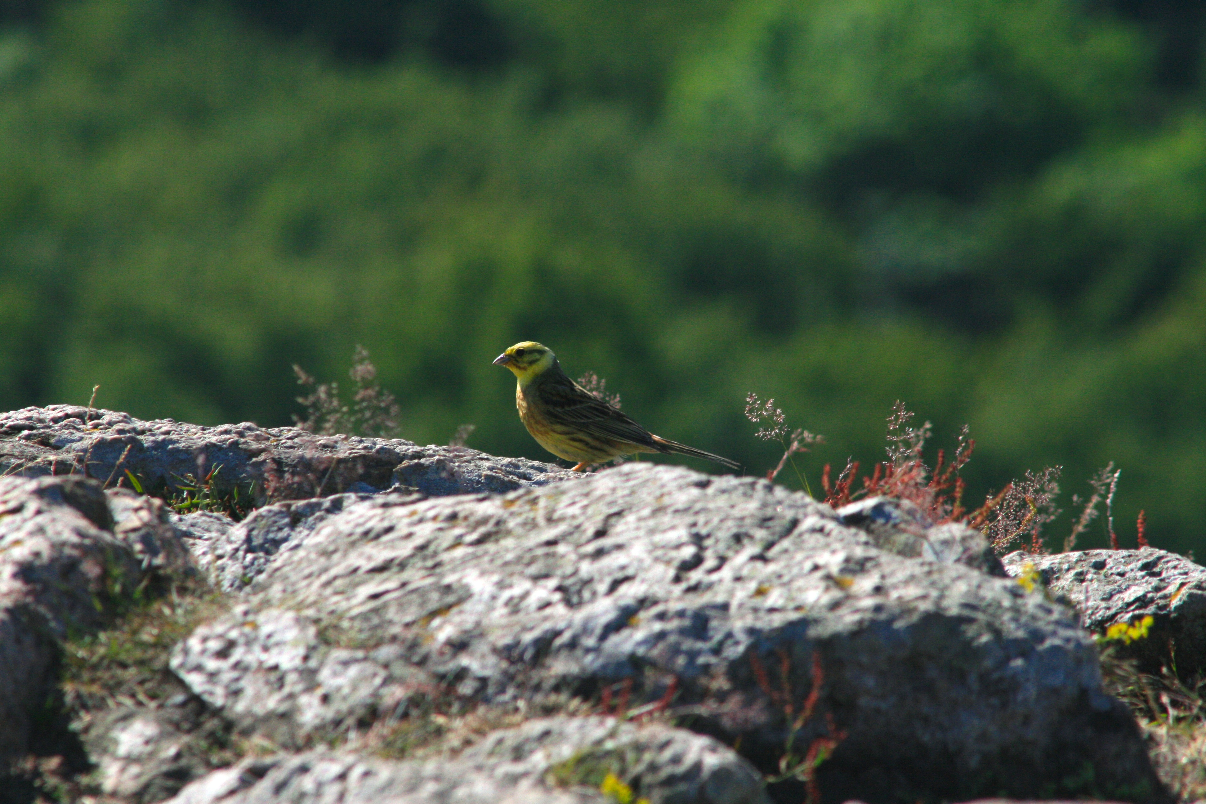 Emberiza citrinella in Norra Huvud, Stenshuvud national park